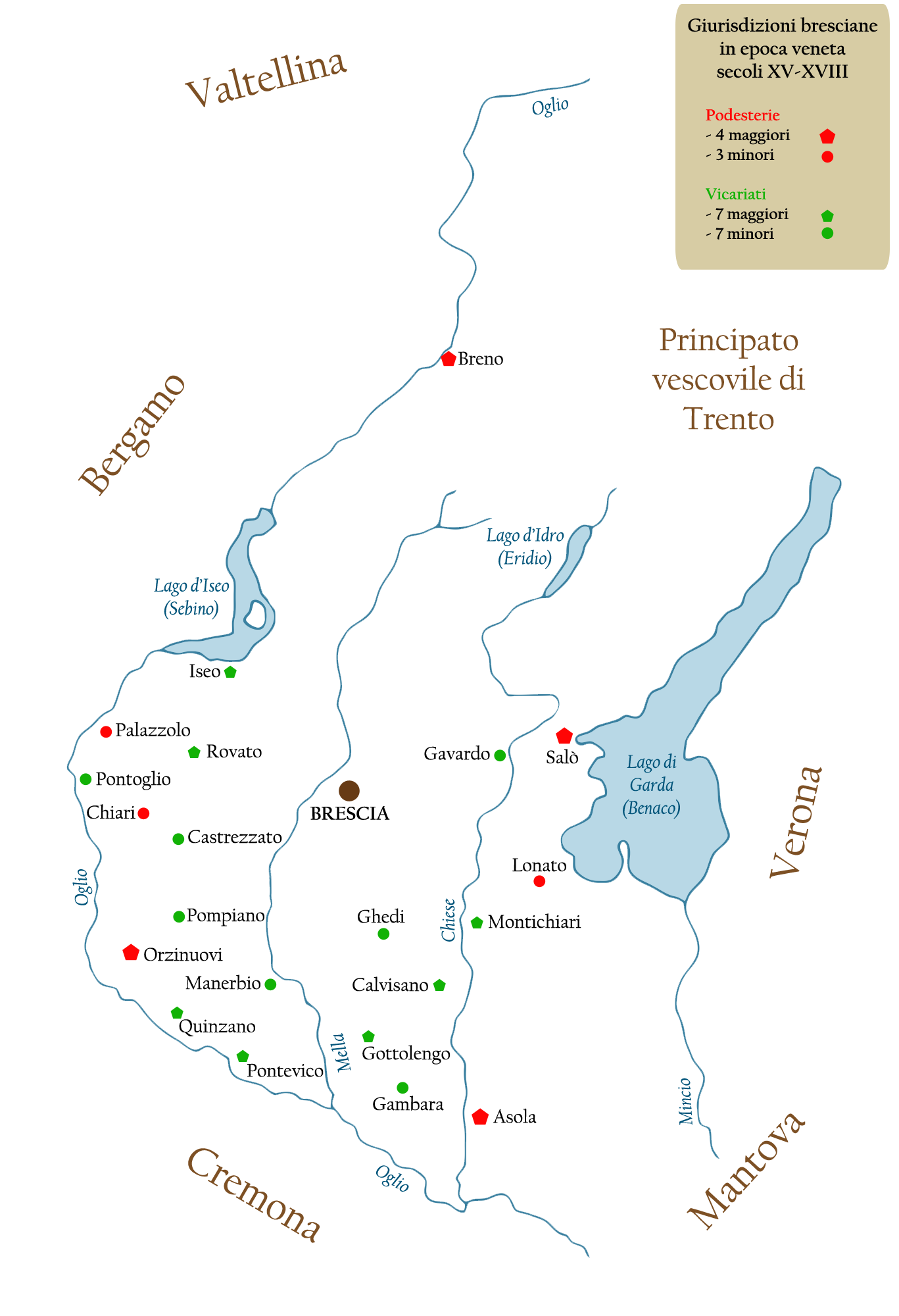 Brescian's jurisdictions in Venetian era (15°-18° c.). Data from Il dominio della terraferma veneta: Bergamo, Brescia, Crema(sec. XV - 1797)